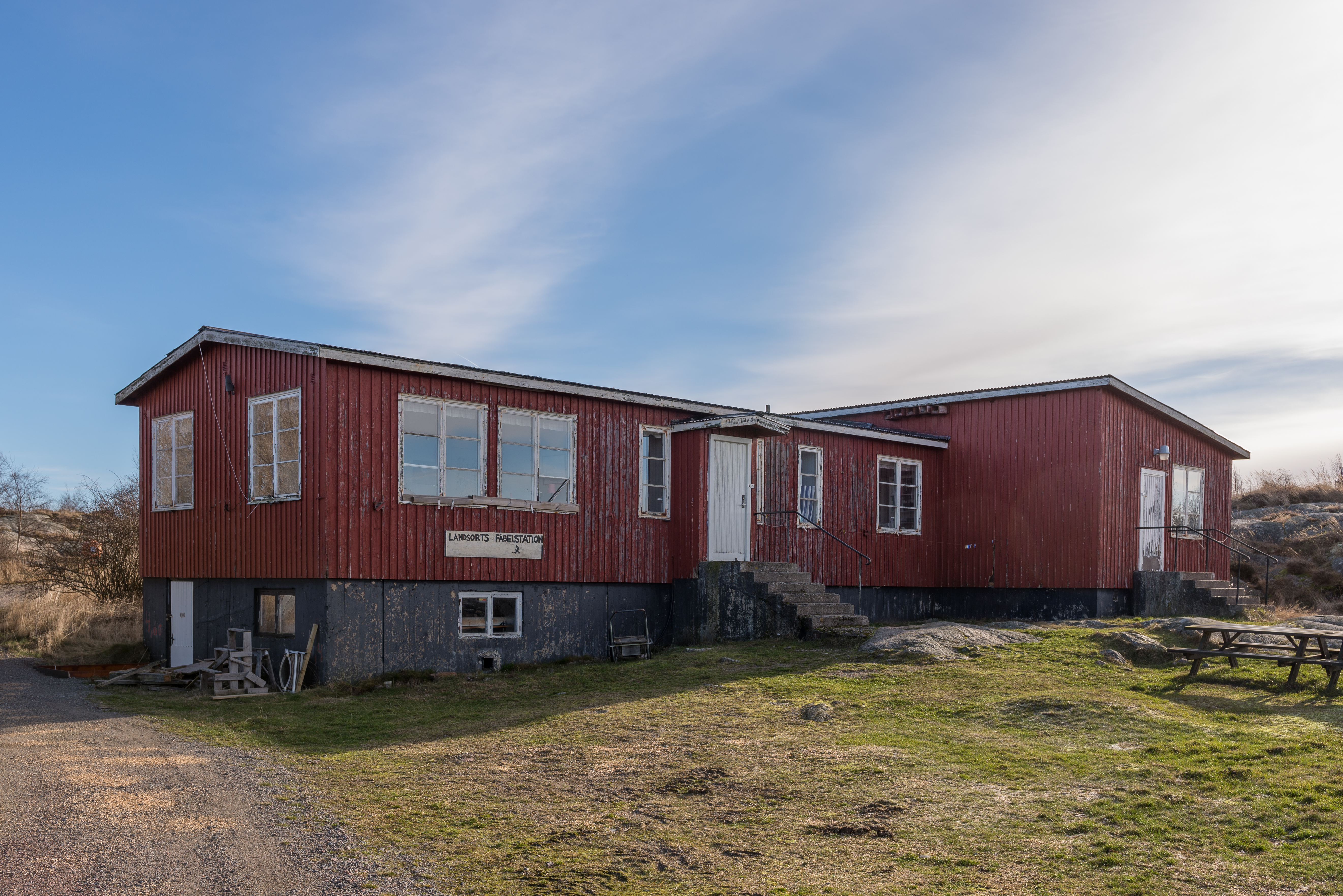 Landsort Bird Observatory. Öja island, Stockholm archipelago.